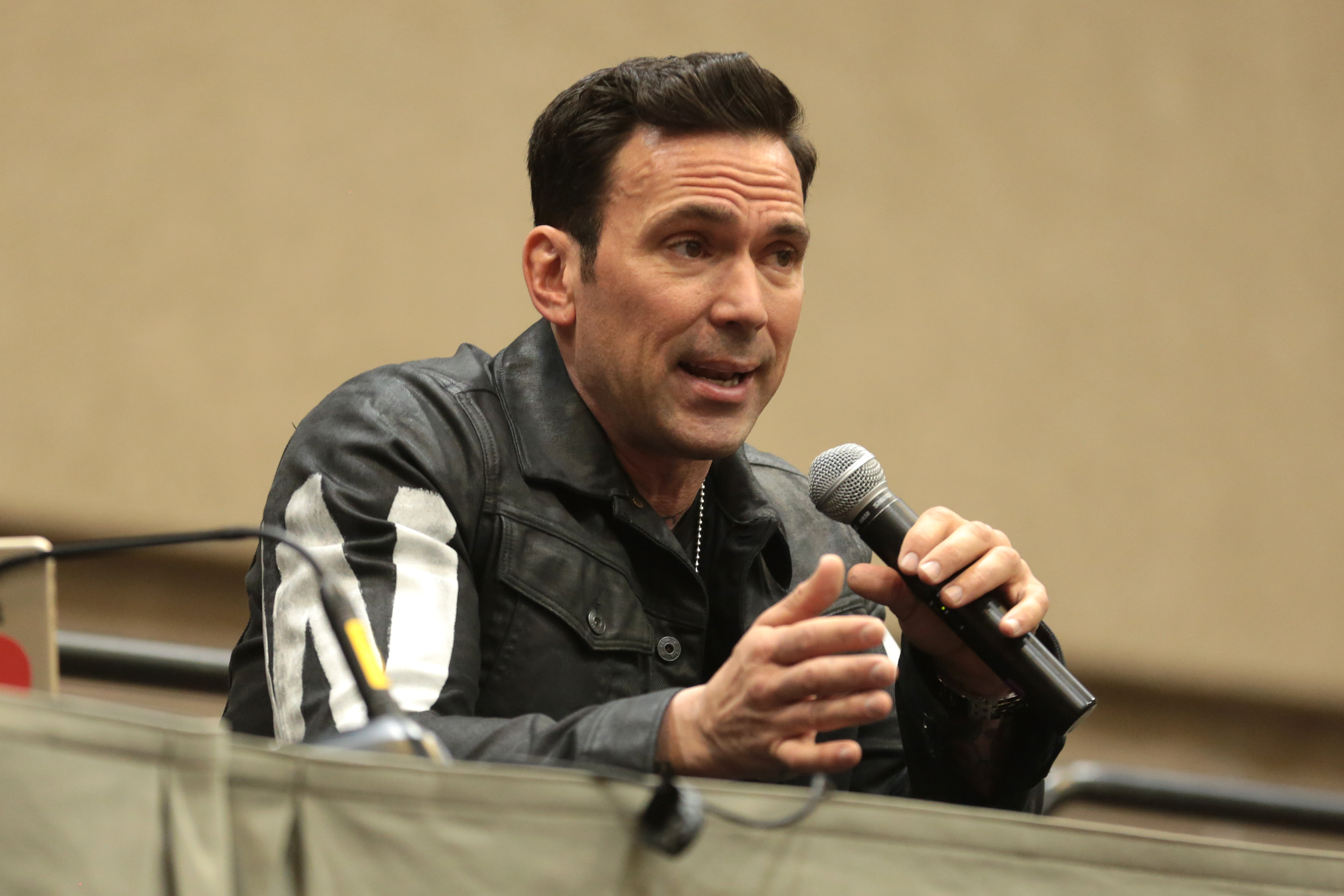 Jason David Frank speaking at the 2017 Phoenix Comicon in Phoenix, Arizona.